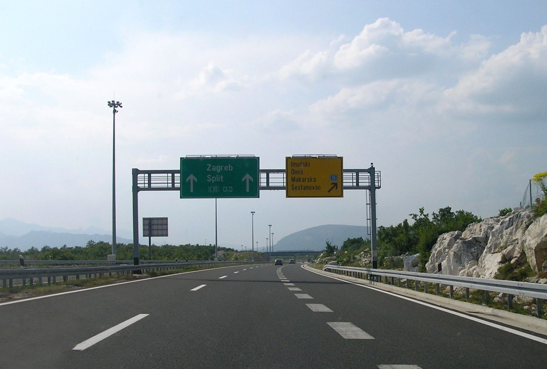 Šestanovac interchange on A1 highway in Croatia